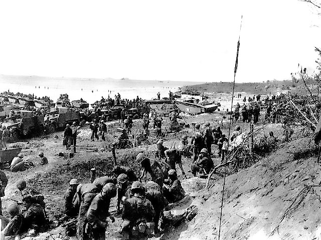 Men and equipment on Tinian beach.